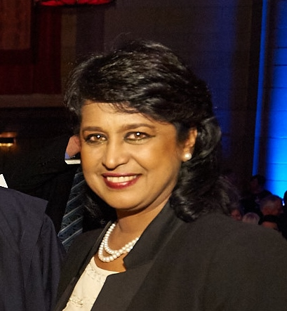 Ameenah Gurib, President of Mauritius